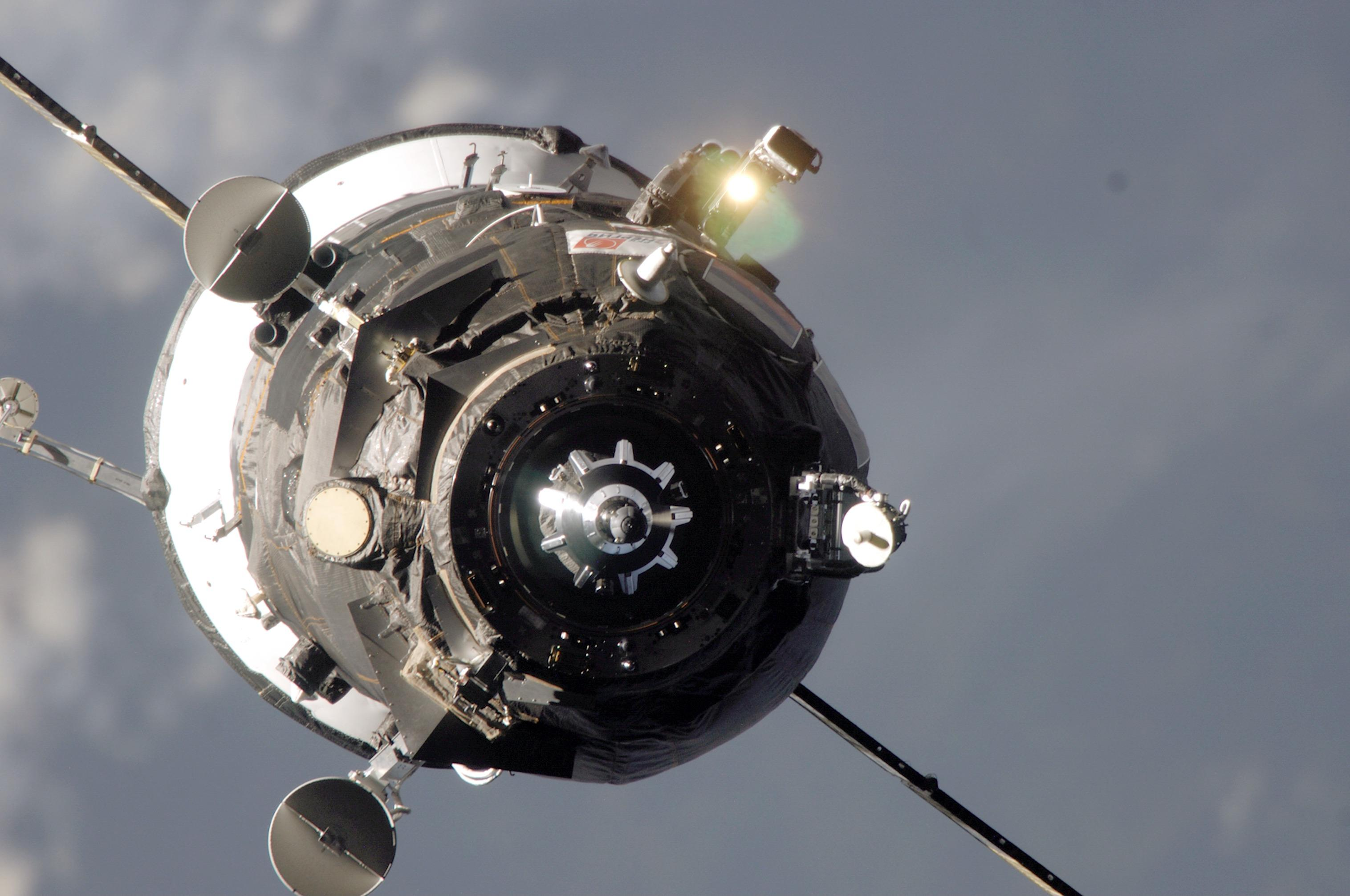 An unpiloted Progress supply vehicle approaches the International Space Station. The Progress 26 resupply craft launched on Aug. 2, 2007 from the Baikonur Cosmodrome in Kazakhstan. Progress automatically docked to the Pirs Docking Compartment on Aug. 5